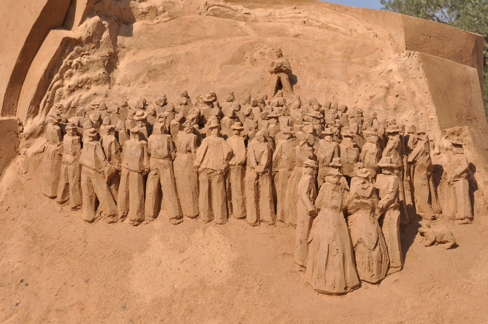 Sand Castles, Gift of Netherland Embassy in Israel to Mark 100 years of Tel-Aviv